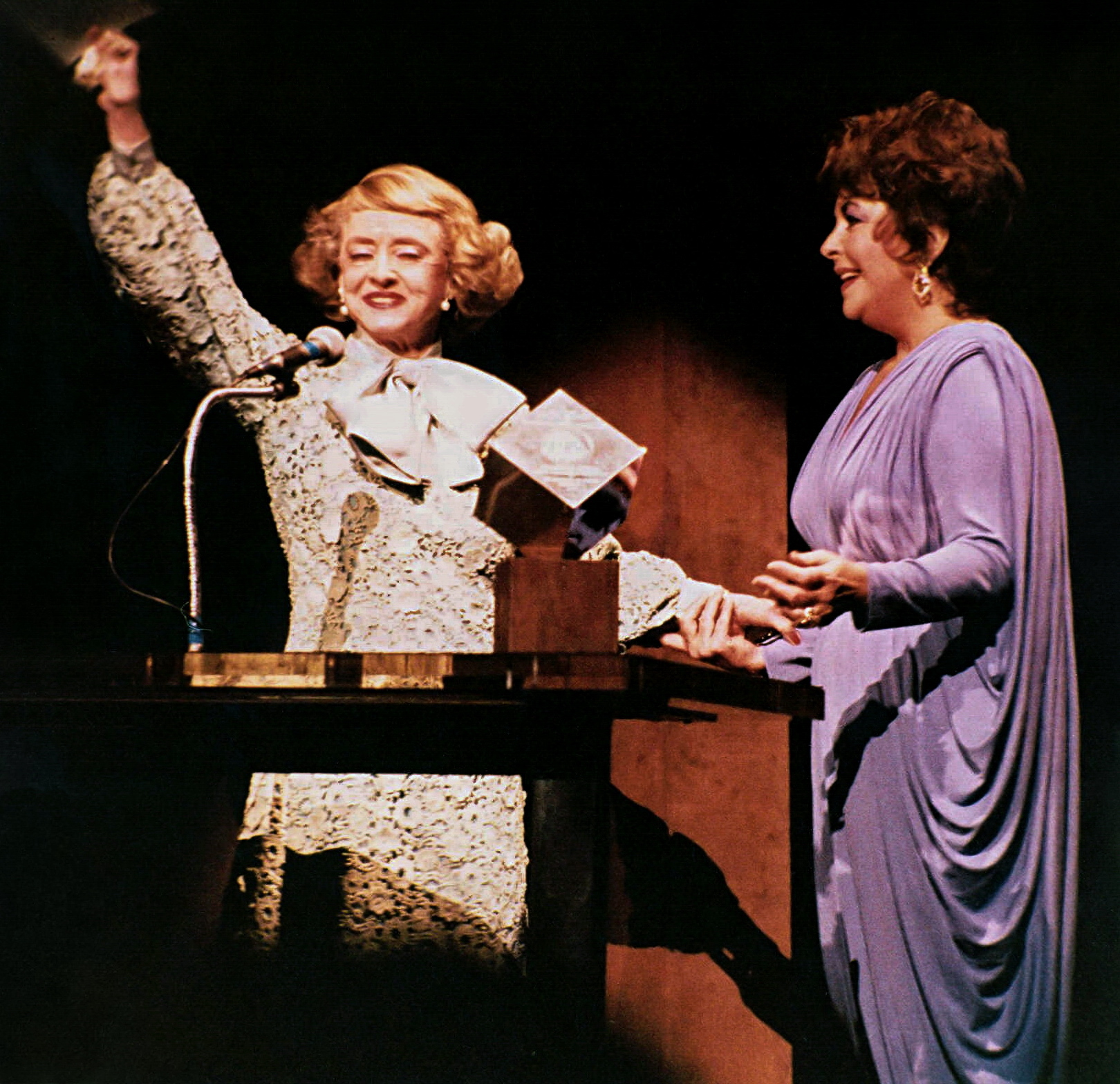 Actress Bette Davis and Elizabeth Taylor at an award show